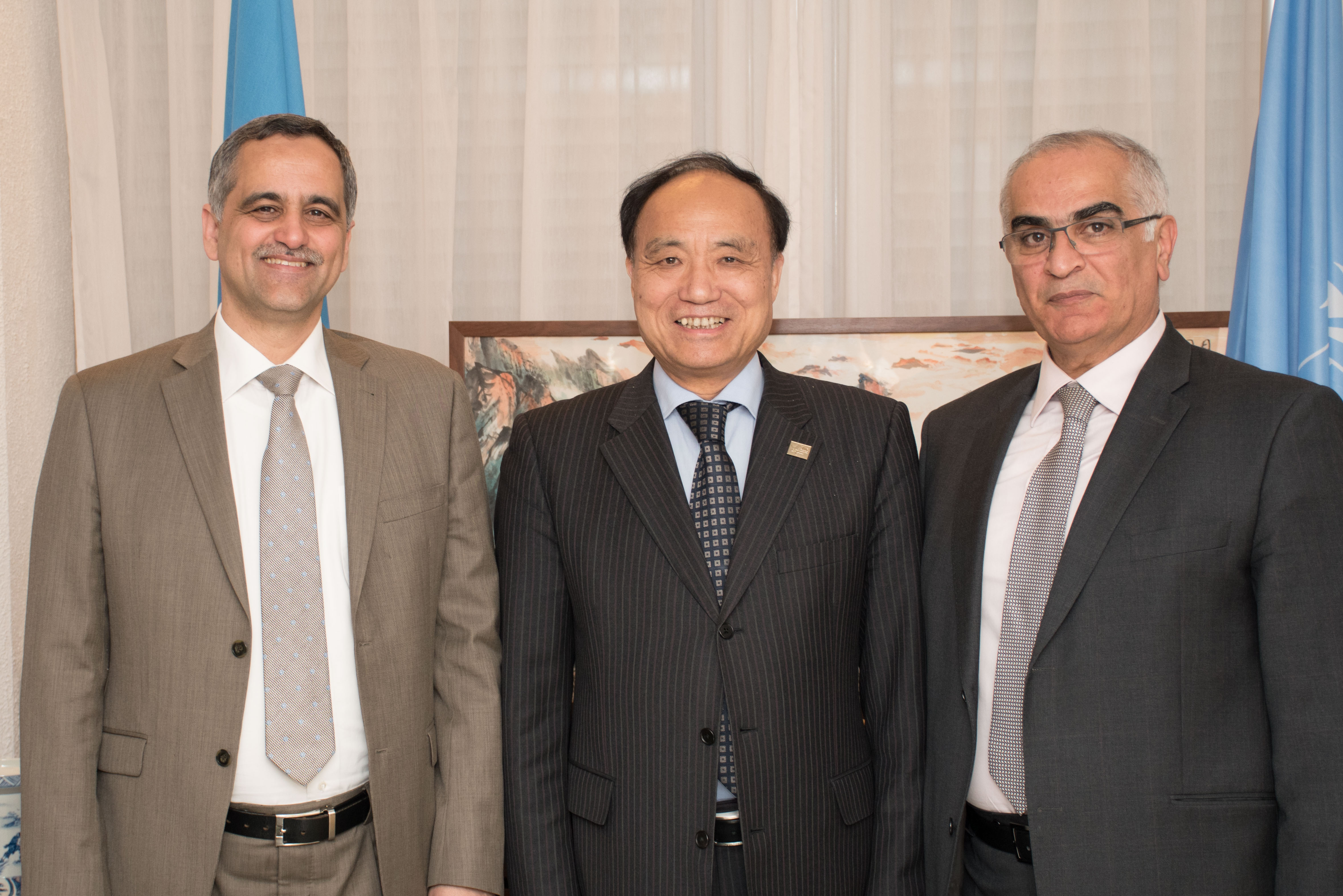 ITU Secretary-General meets with H.E. Dr. Allam Moussa, Minister of Telecommunications and Information Technology of the State of Palestine, and H.E. Mr. Ibrahim Khraishi, Ambassador, Permanent Observer of the State of Palestine